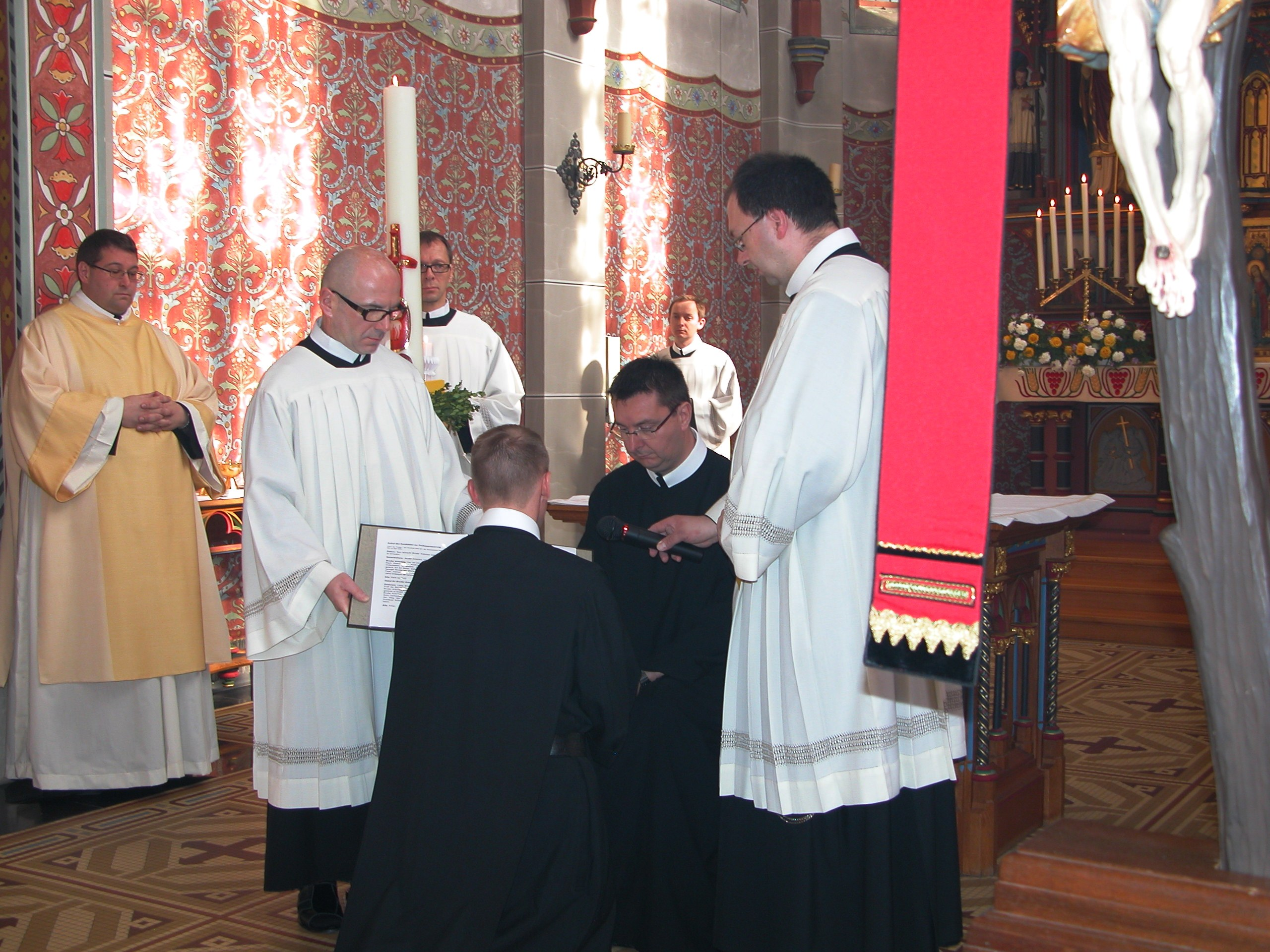 Erstprofess in der Klosterkirche der Barmherzigen Brüder in Trier